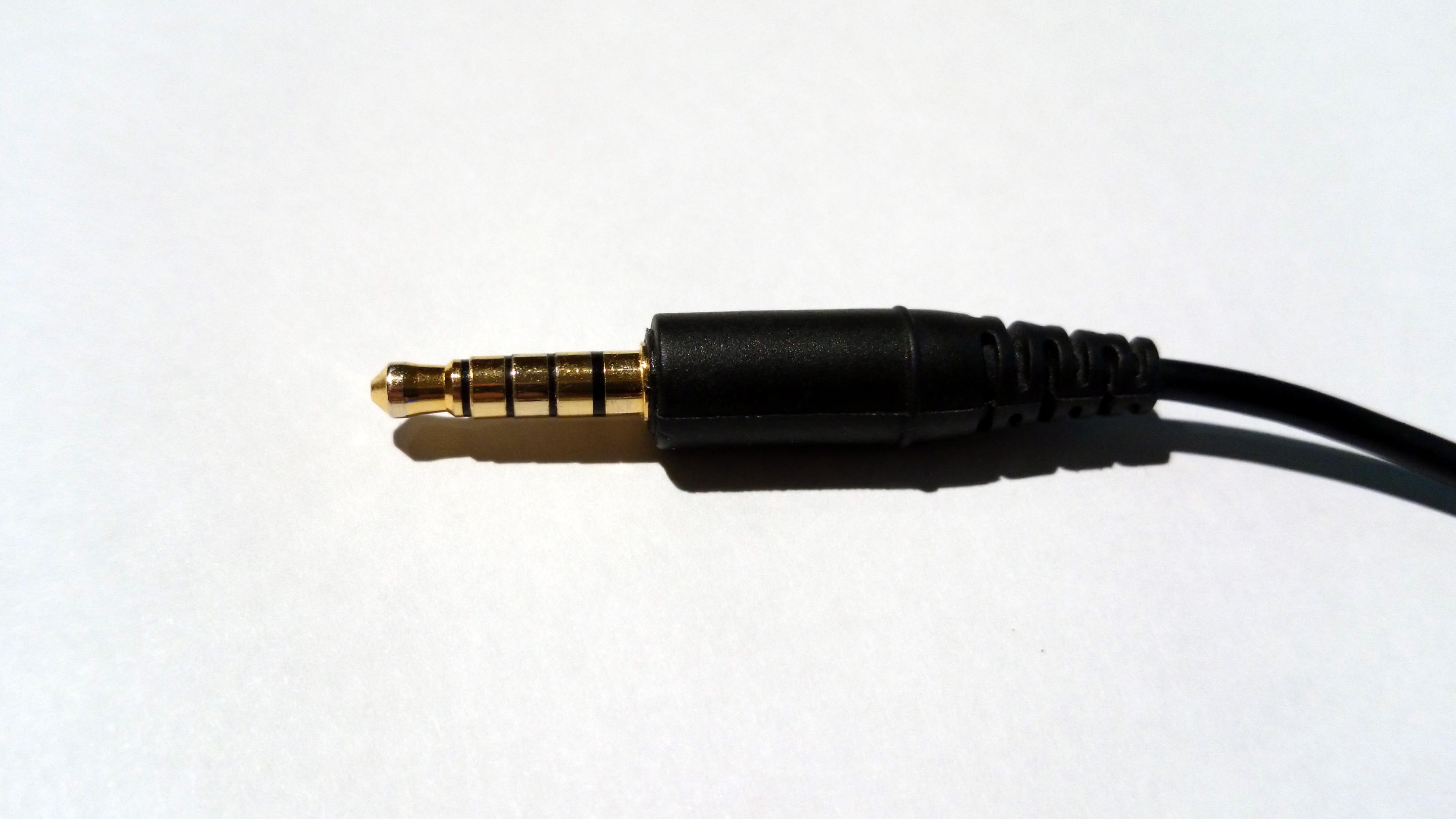 3.5 mm five conductor phone jack (TRRRS)